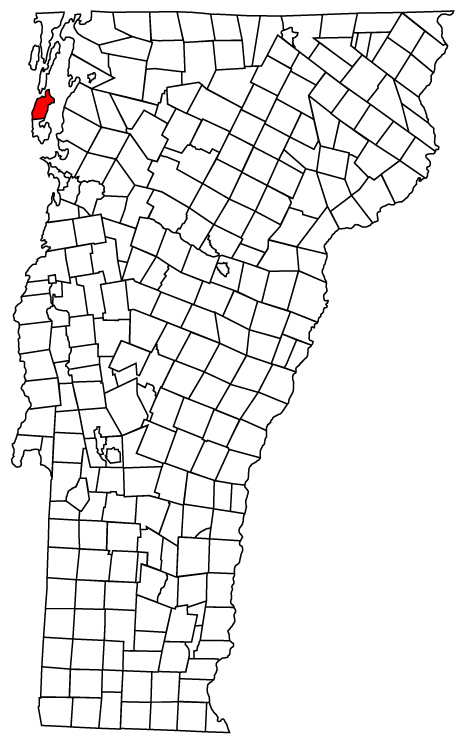 Description: Map of Vermont towns with Grand Isle highlighted Source: Map created by Jared C. Benedict on 26 March 2004. Copyright: © Jared C. Benedict.